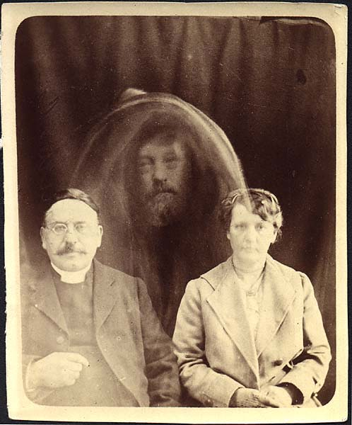 Rev. Charles L. Tweedale and Mrs. Tweedale with the alleged Spirit Form of F. Burnett. This spirit photograph like all of William Hope's were exposed as fraudulent.